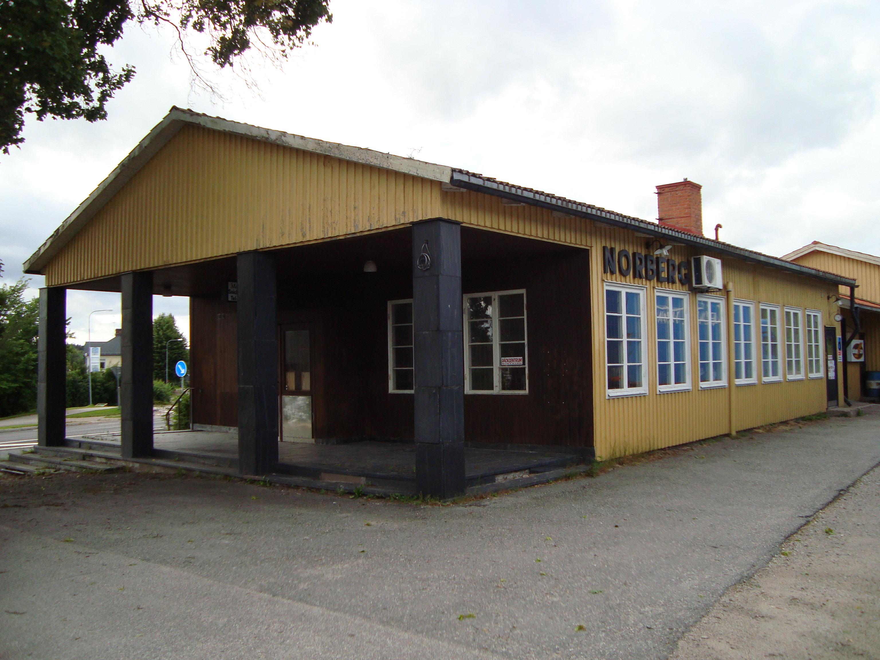 Norberg's train station, Engelsberg-Norbergs Järnväg (now museal railroad), Sweden